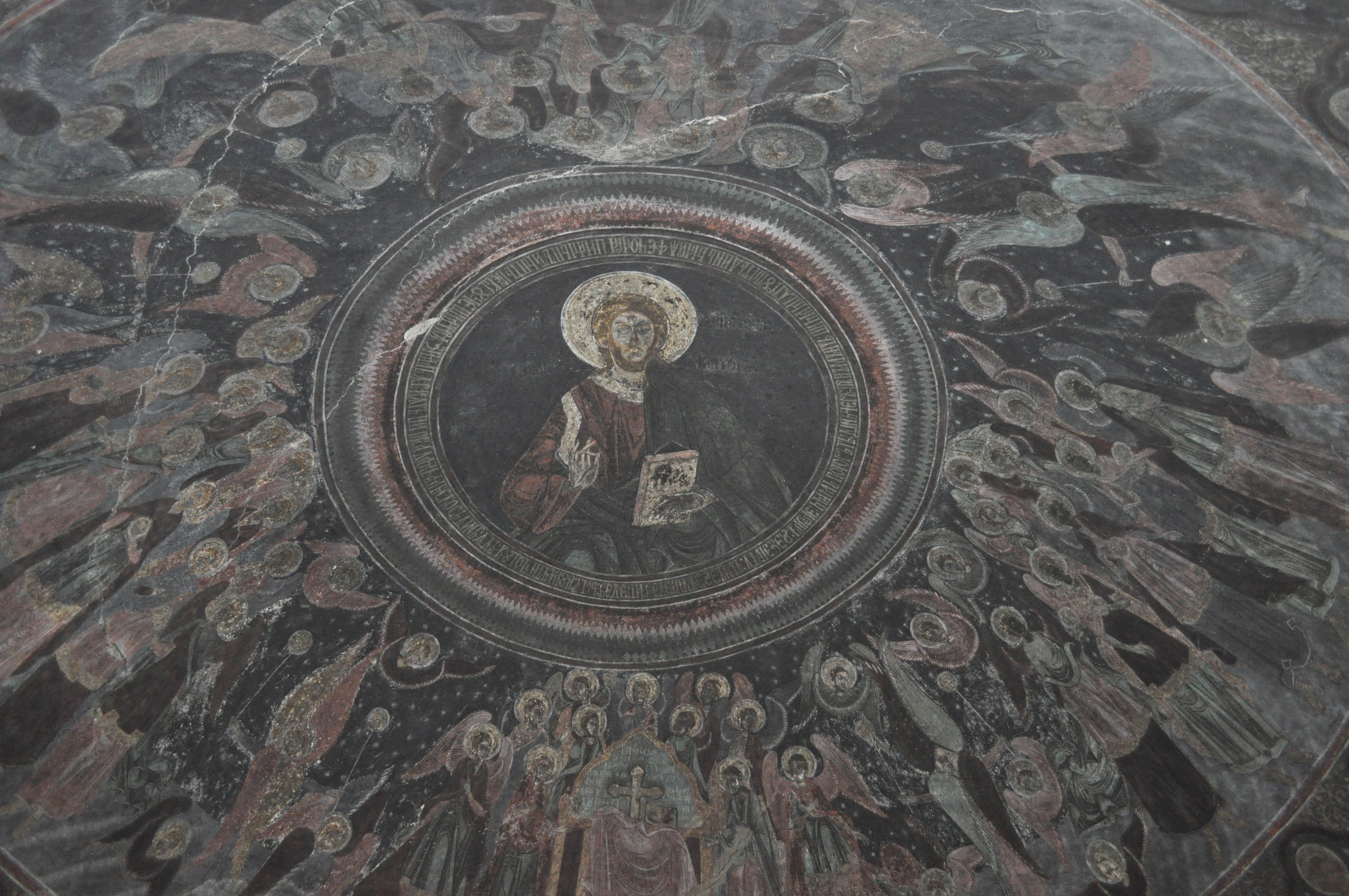 The old orthodox church „Dormition of the Theotokos” in Săsăuș, Sibiu county, Romania